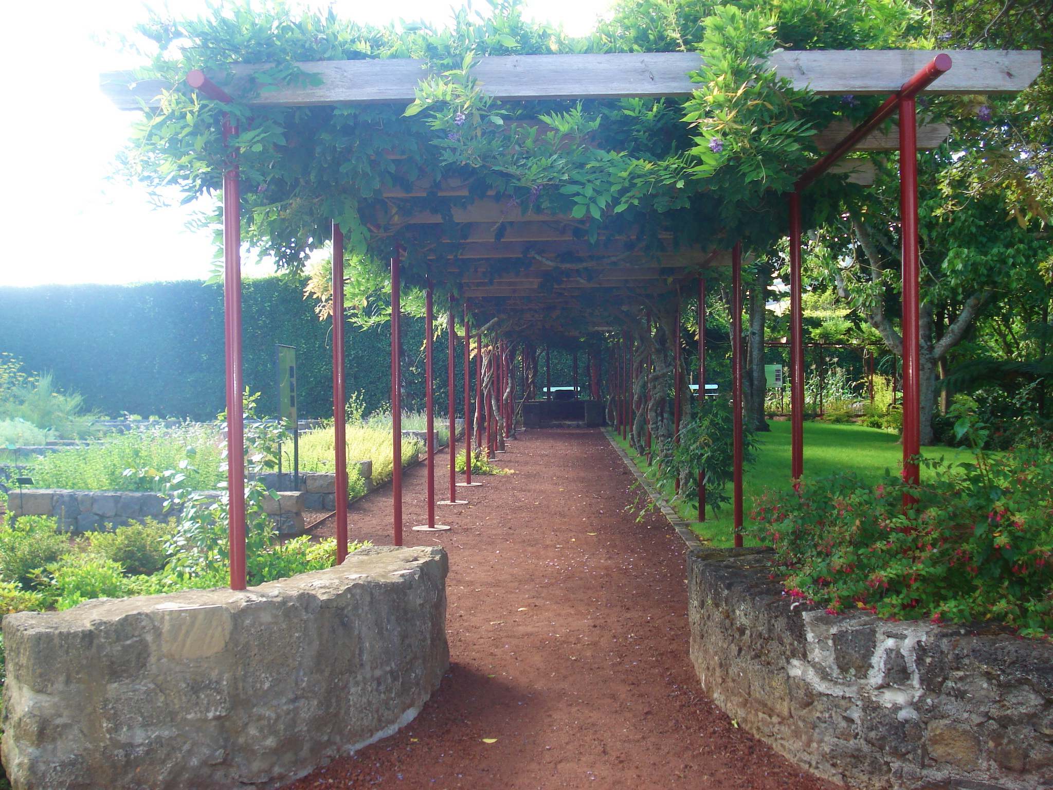 The entrance to the herb garden, agriculture section and route to the Orchid greenhouse in the Botanical Garden of Faial, civil parish of Flamengos, municipality of Horta (Azores), Portugal